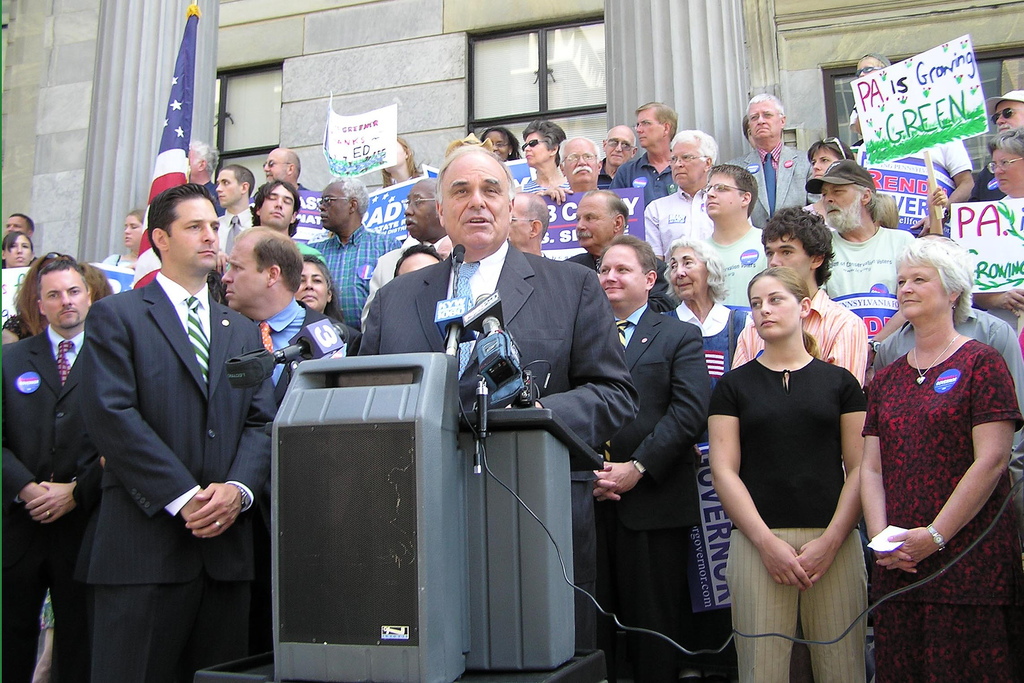 Pennsylvania Conservation Voters Education League (PCVEL), Sierra Club, and Clean Water Action endorse Governor Ed Rendell for a second term. Michael F. Gerber stands to the side.